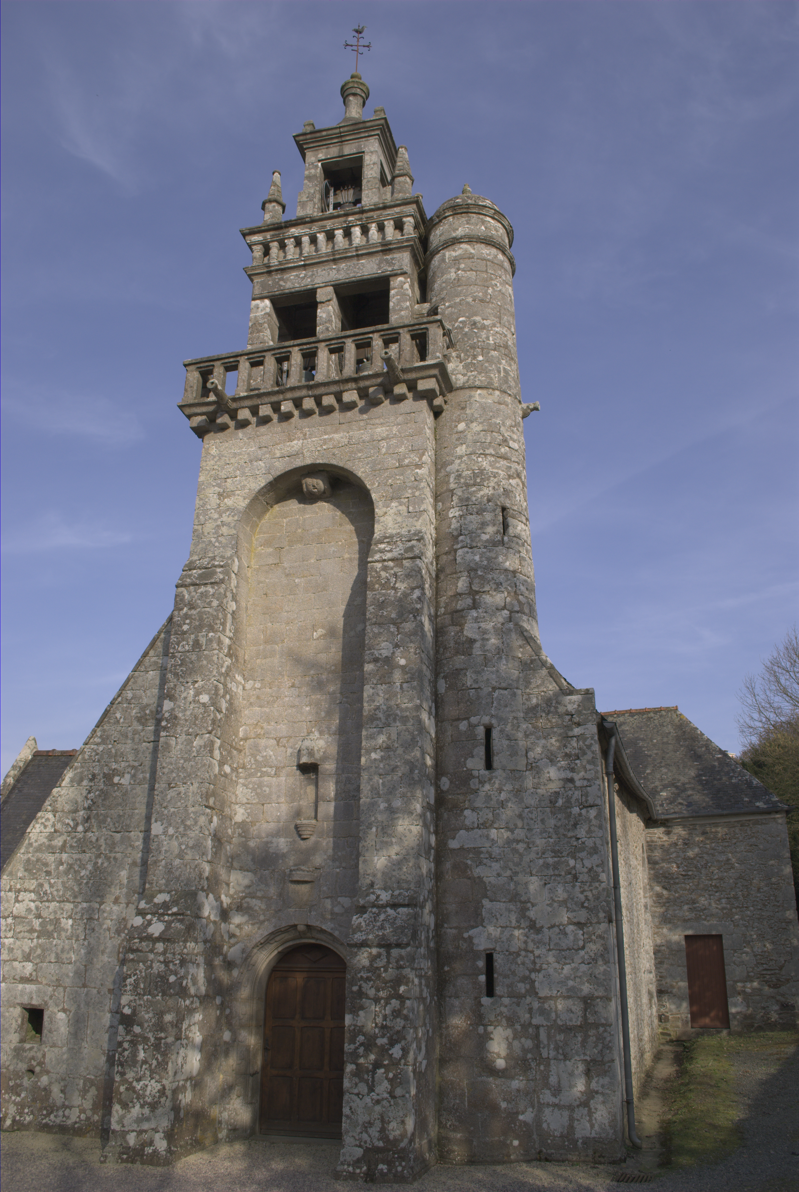 Front view of the Saint-Iltud Church in the village of Coadout (France).